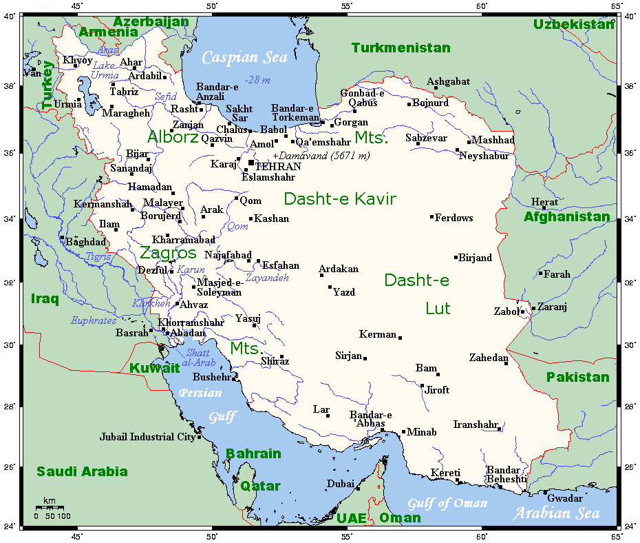 A map showing Iran's cities and main towns. This map's source is here, with the uploader's modifications, and the GMT homepage says that the tools are released under the GNU General Public License.